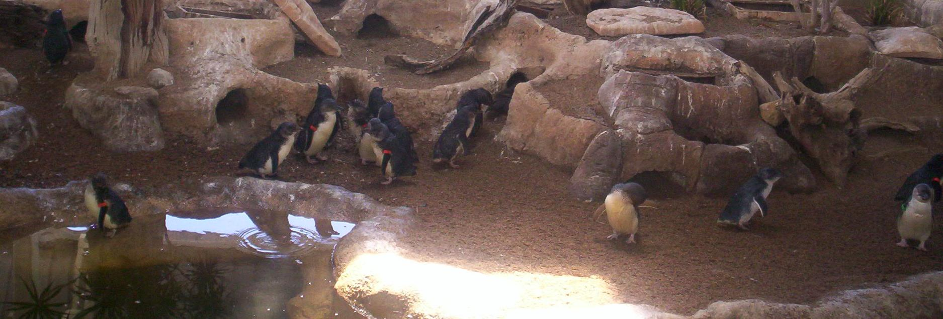 Fairy Penguins at Sea World, Gold Coast, Queensland, Australia.